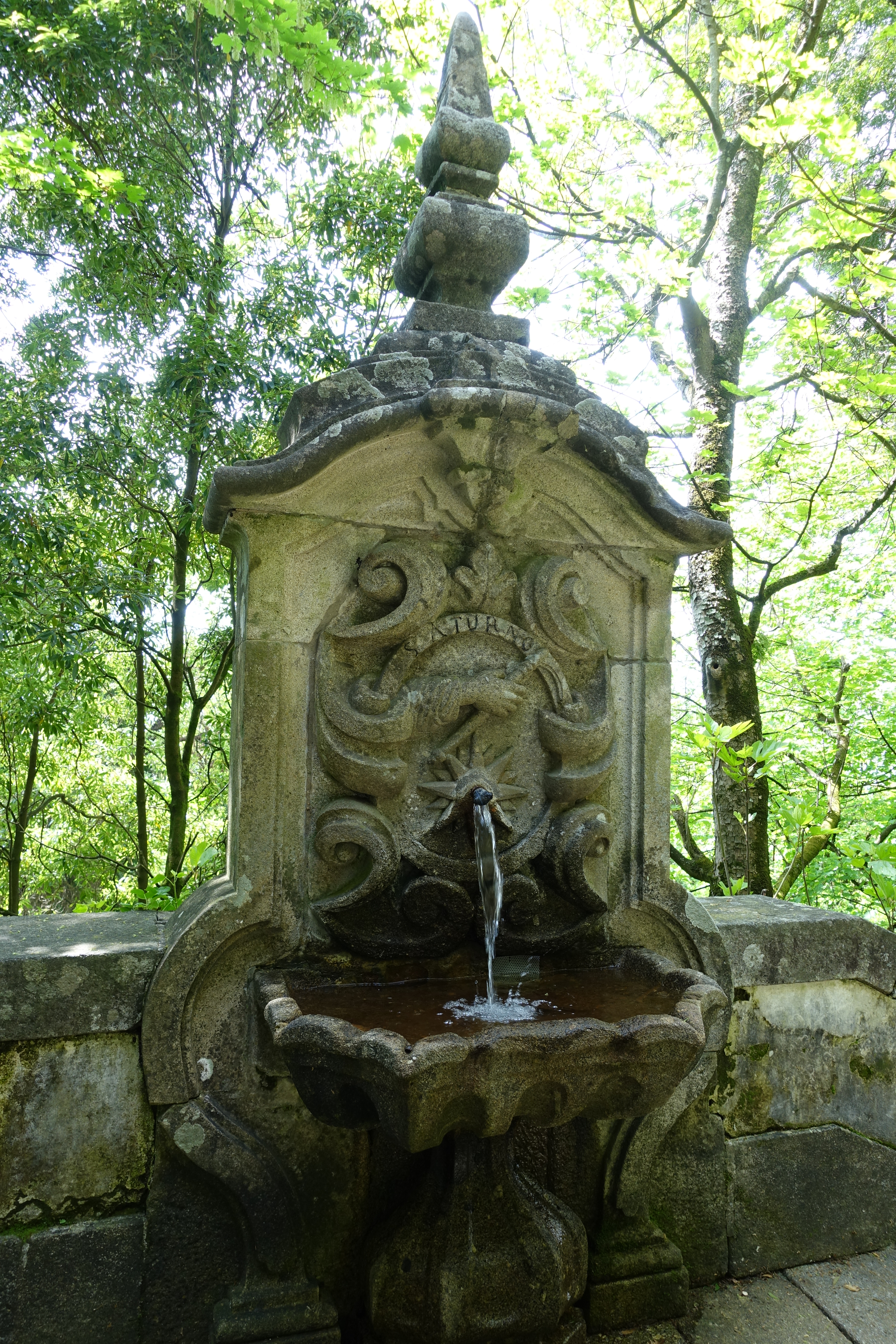 Fountain in Pórtico stairs, Bom Jesus, Braga, Portugal.